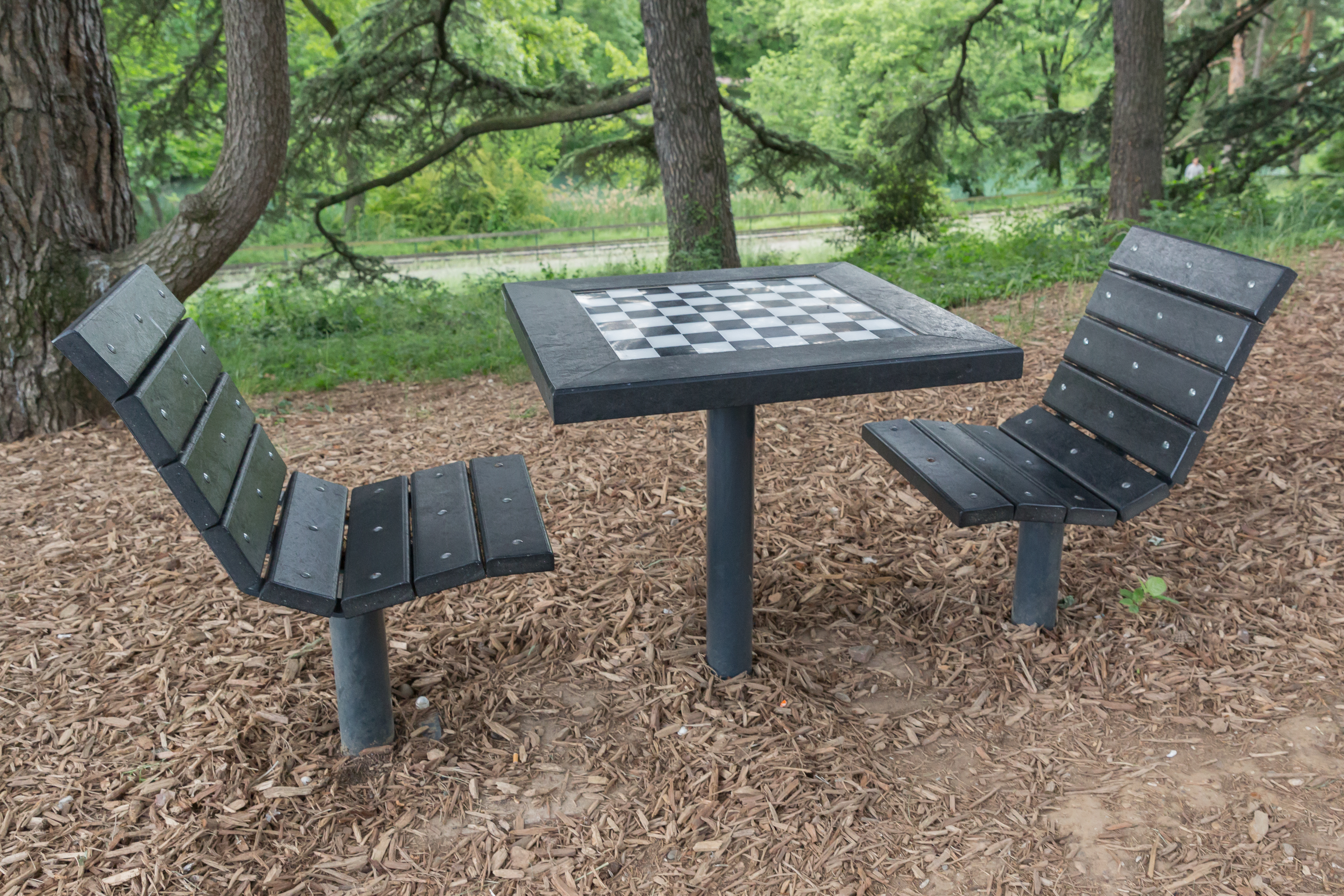 Chess table at Parc de la Tête d'Or in Lyon, France.